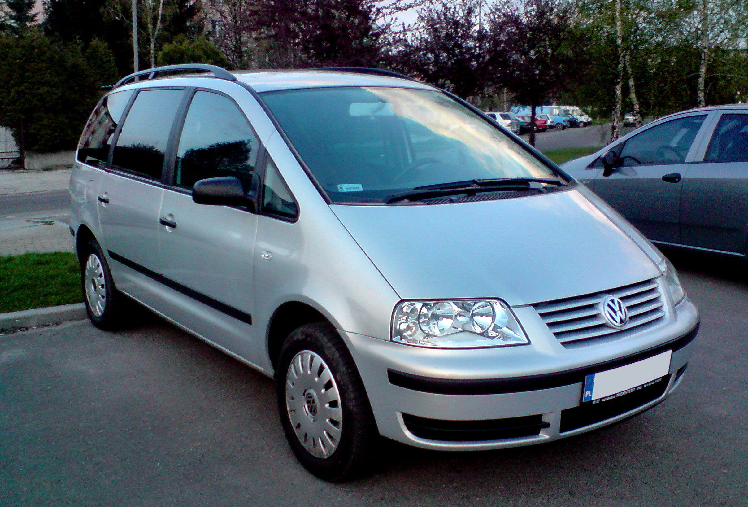 Volkswagen Sharan I FL seen in Jasło, Poland.